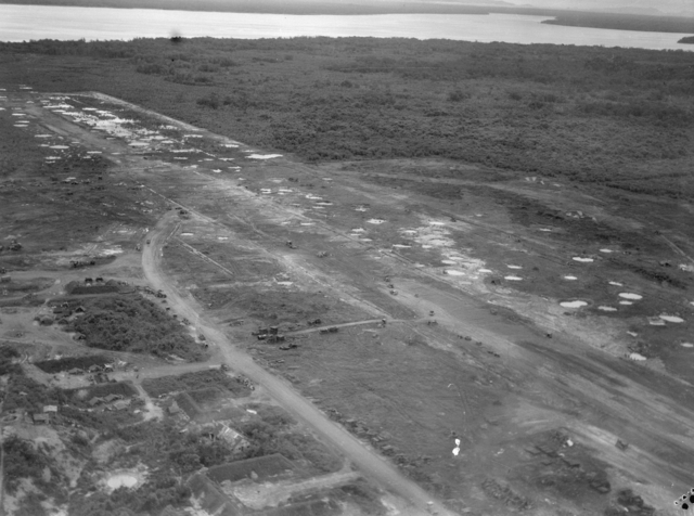 AWM Caption: ESSEX HILL, TARAKAN ISLAND, 1945-05-21. TARAKAN AIRSTRIP LOOKING NORTH WEST NORTH, SHOWING THE EXTENT OF THE RECONSTRUCTION WORK COMPLETED BY MEMBERS OF 1ST AND 8TH AIRFIELD CONSTRUCTION SQUADRONS, RAAF, IN THE FIFTEEN DAYS SINCE 26TH INFANTRY BRIGADE CAPTURED THE AREA FROM THE JAPANESE.